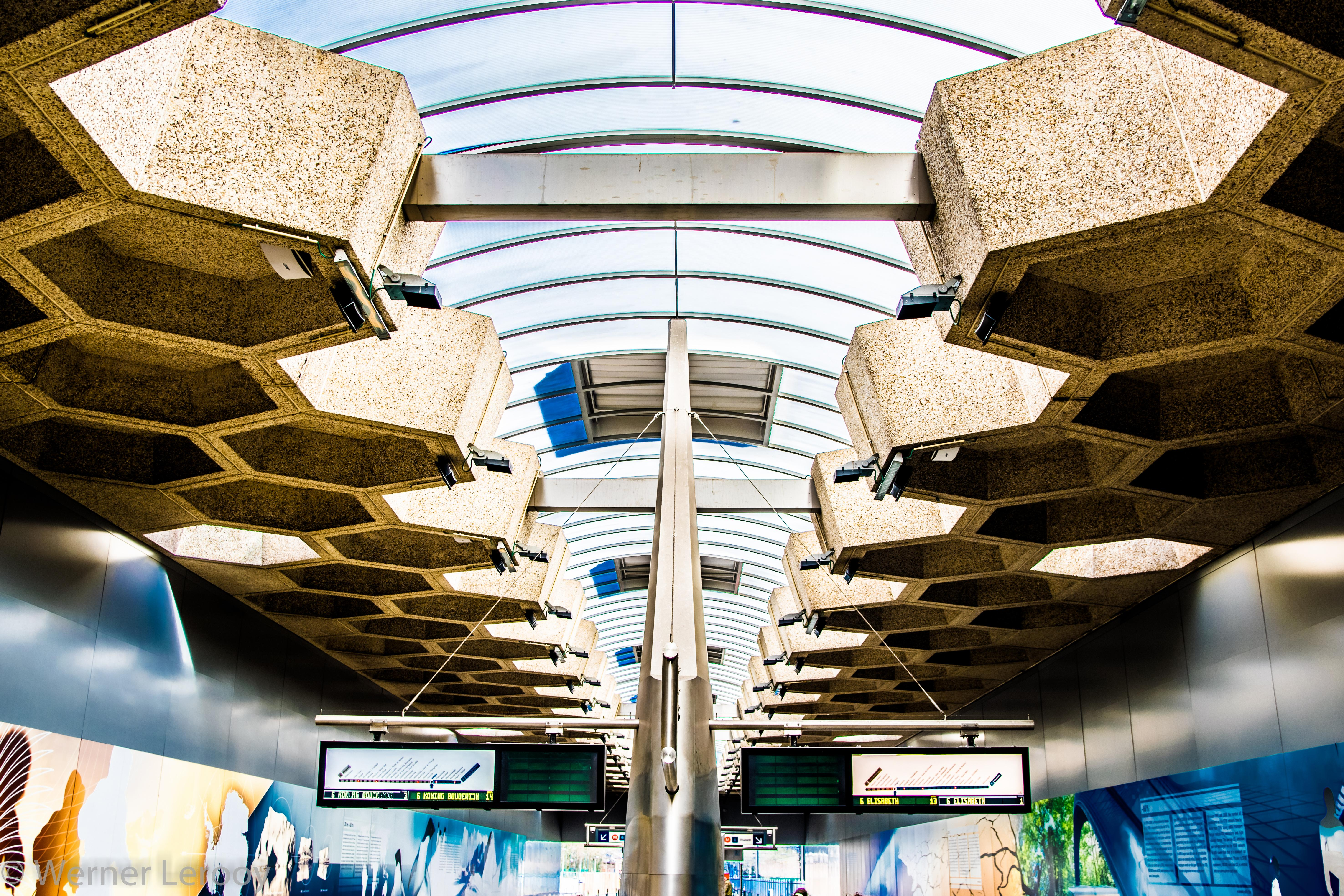 Metro Belgica in Brussels, made in HDR